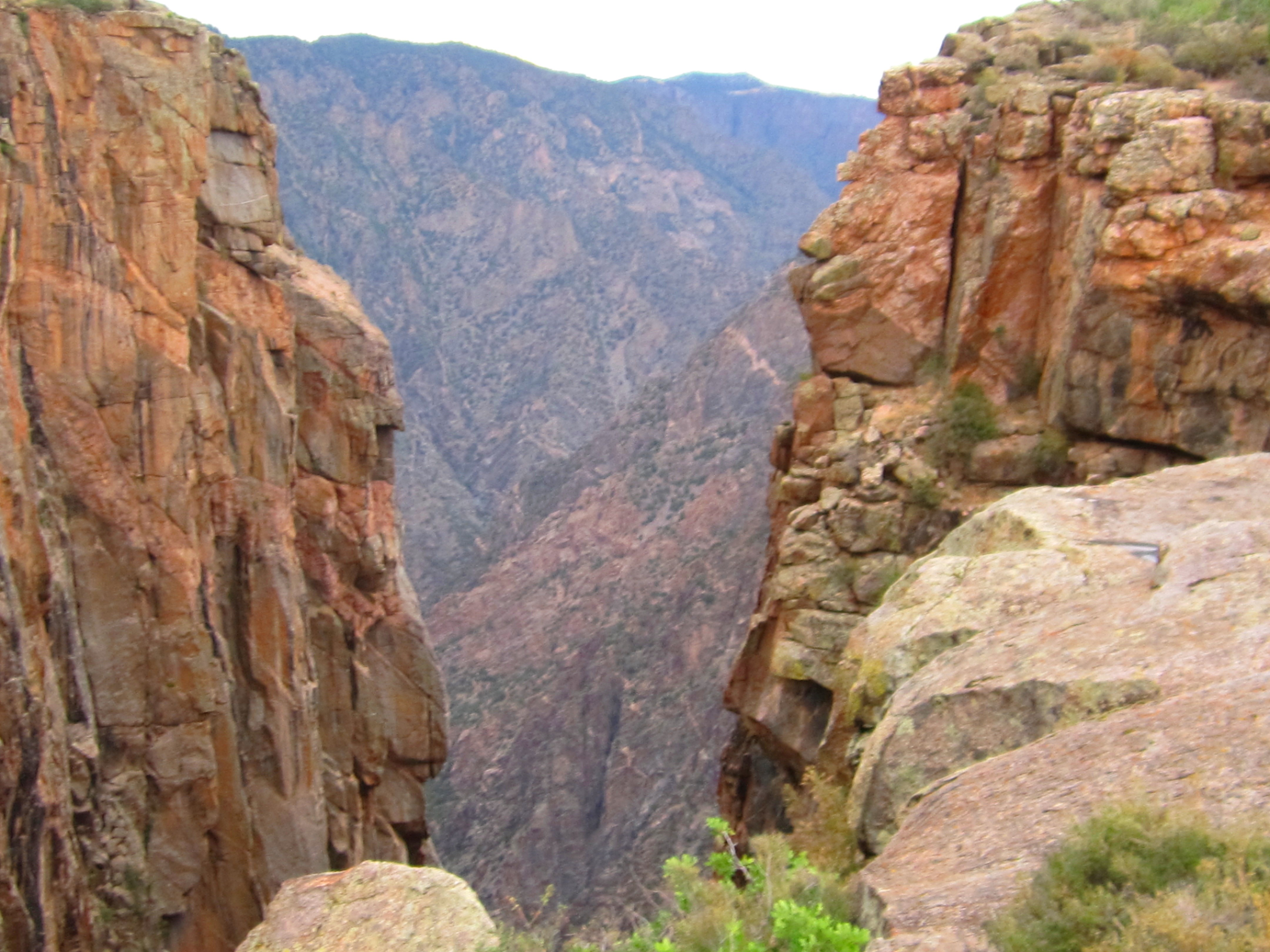 Black Canyon, CO